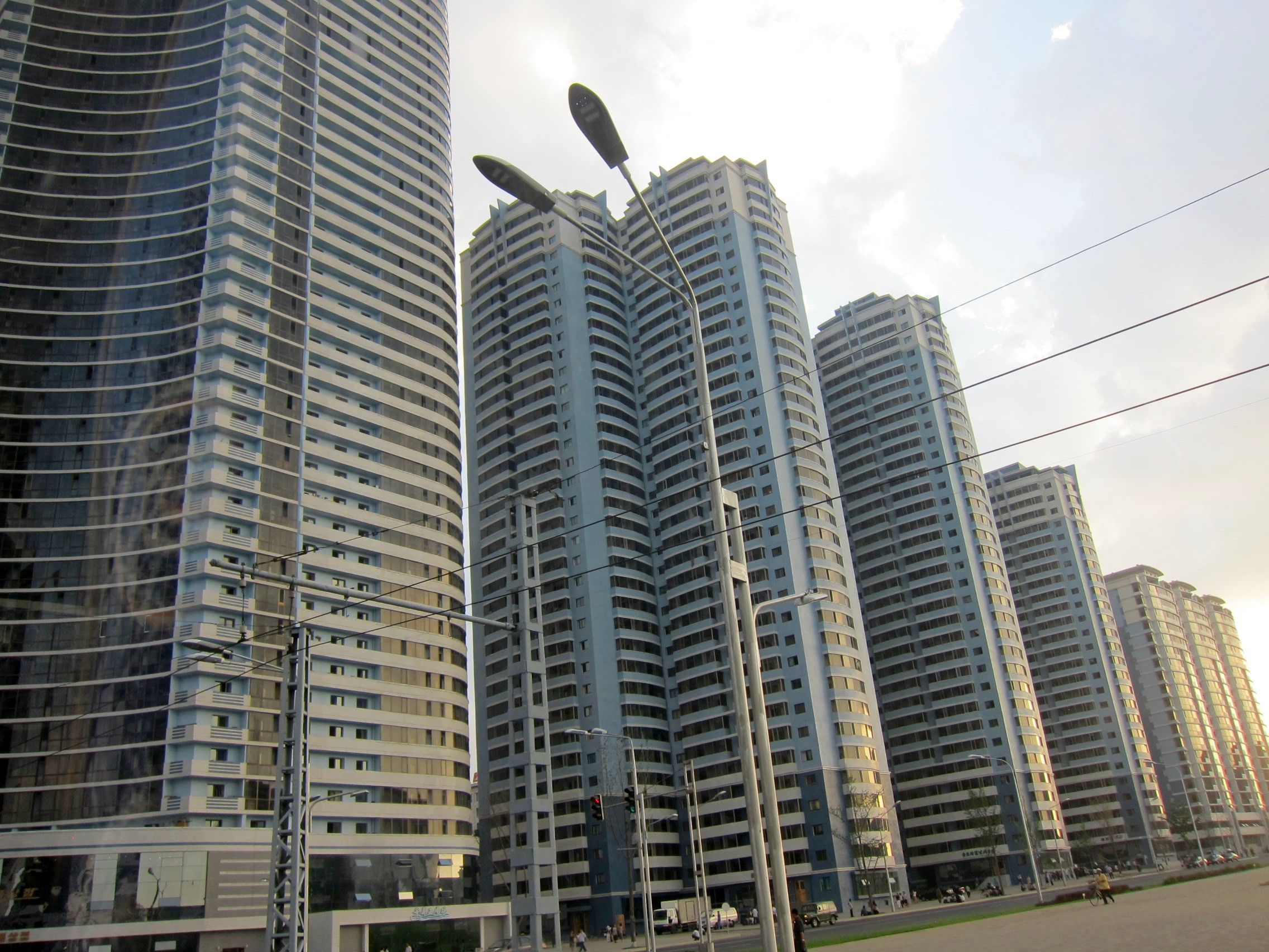 New residential buildings in Pyongyang, North Korea, located at the intersection of Sungni St and Mansudae St, close to Sungni metro station